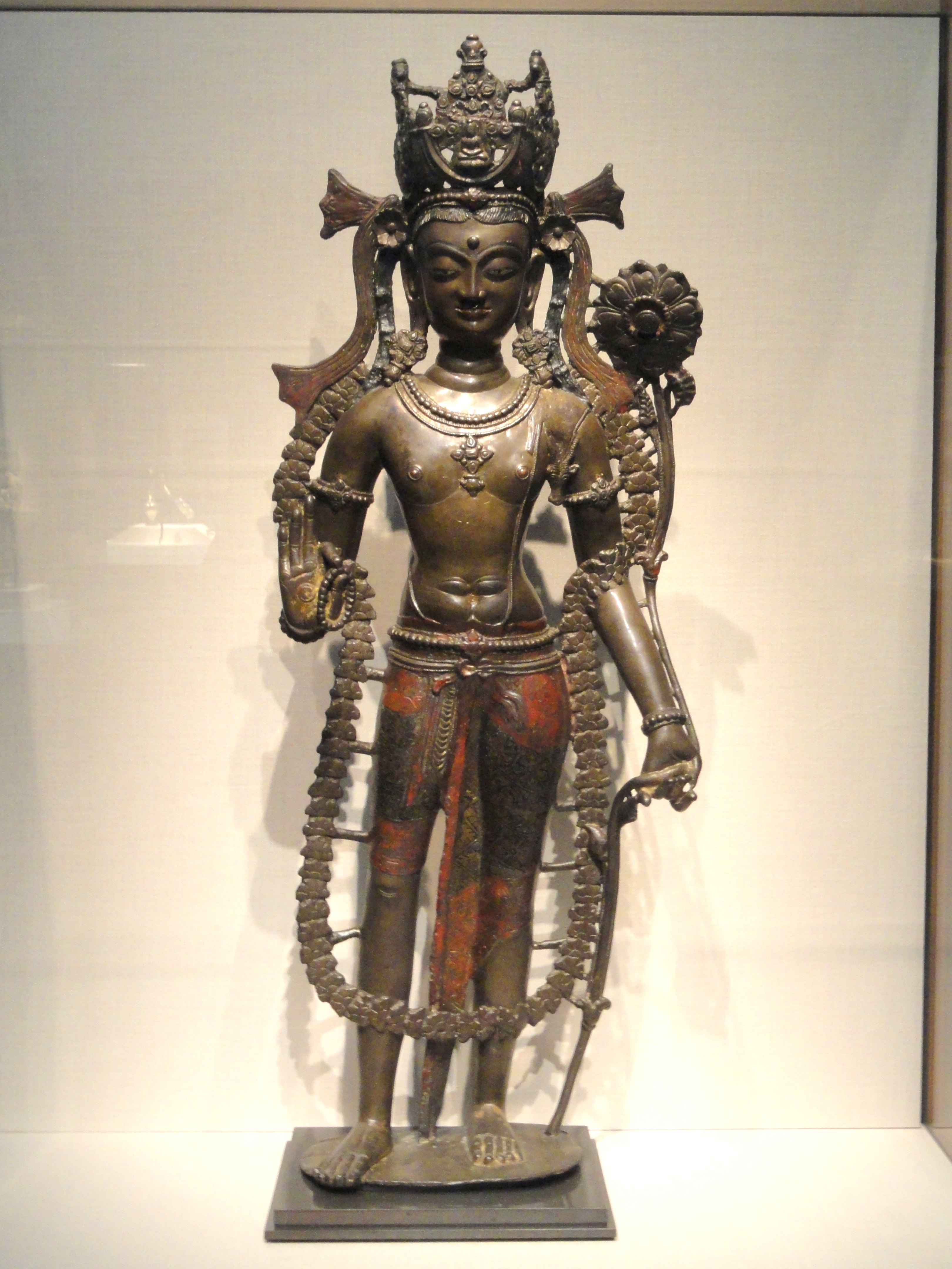 Exhibit in the Freer Gallery of Art, Washington, DC, USA. This artwork is old enough so that it is in the public domain.